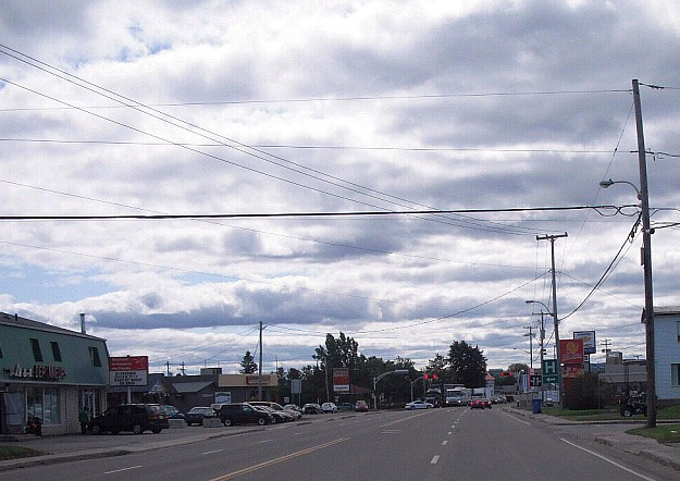 ロベルバル, ケベク, カナダ。